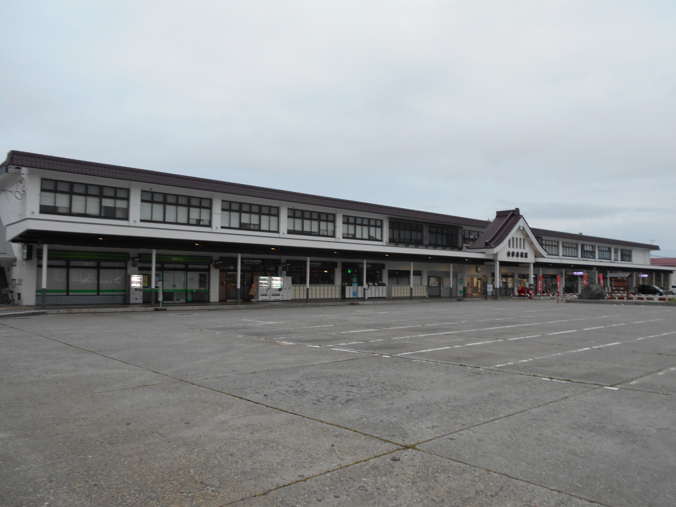 Aizu-Wakamatsu Station